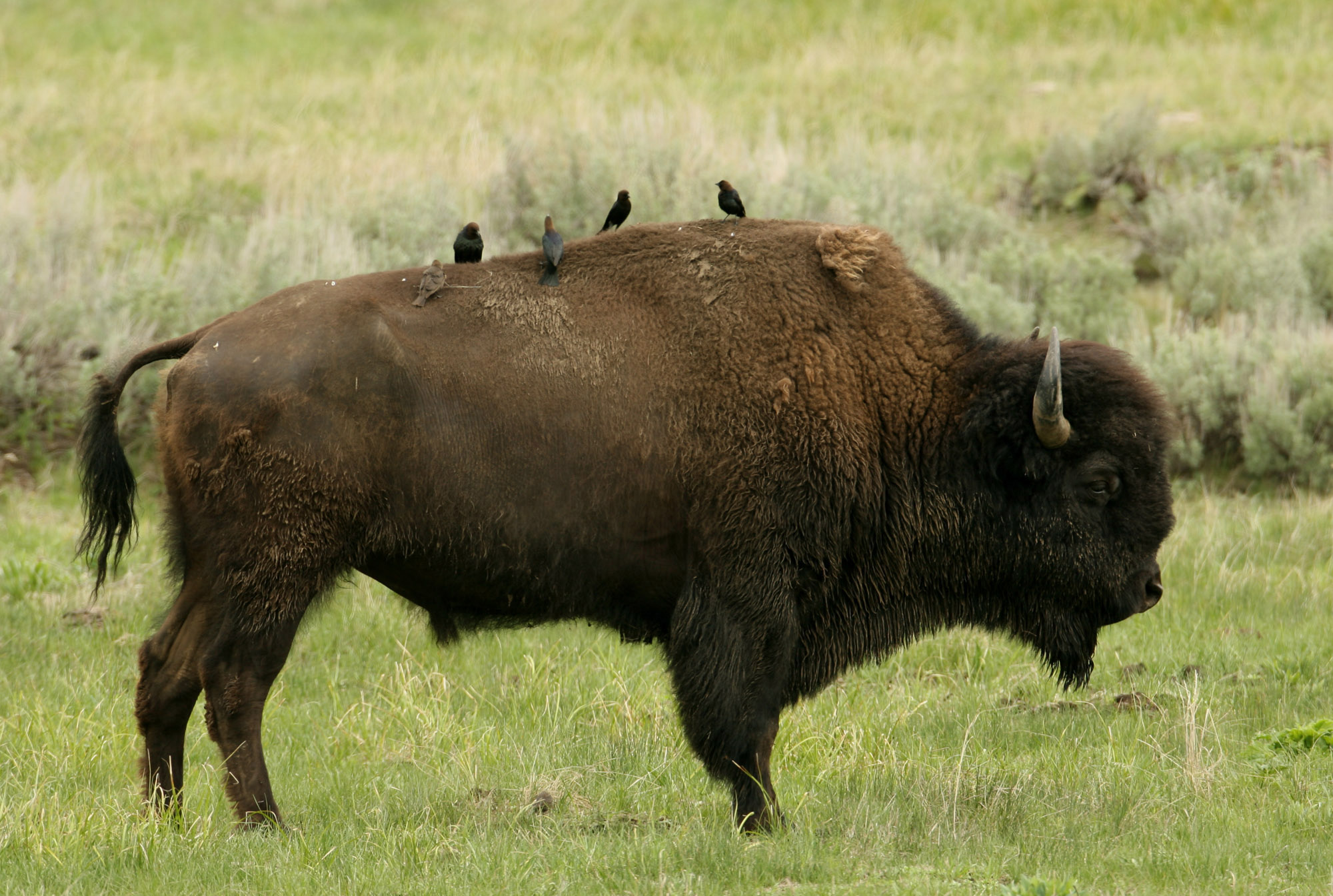 Cow birds on back of bull bison near Soda Butte Creek;.Jim Peaco;.June 2009;.Catalog #18612d;.Original #RD7Y4685